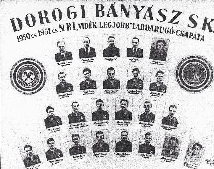 The best provincial team in Hungary.